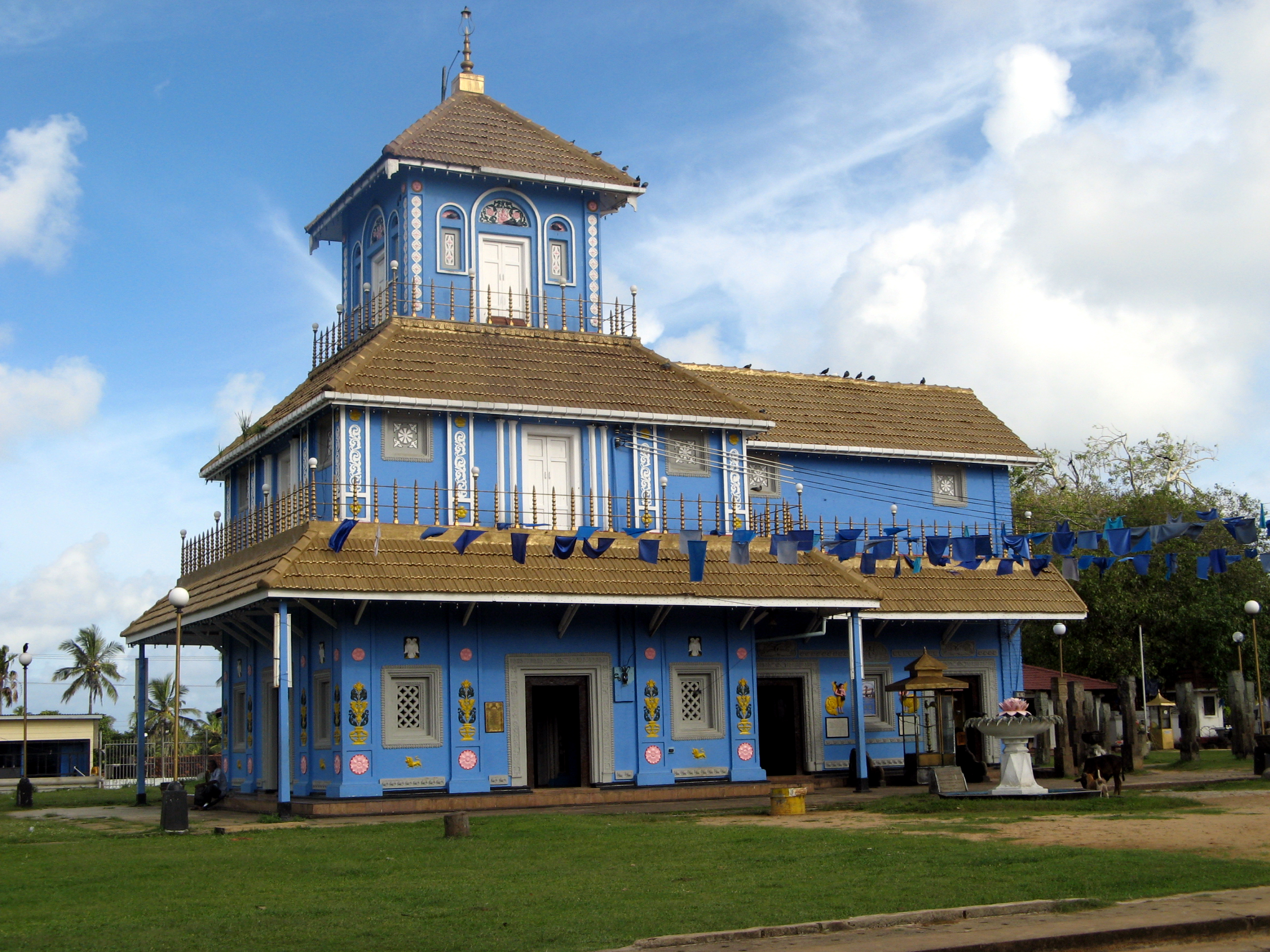 This cake-frosting Vishnu-blue (or perhaps, Wedgwood-blue) devale is Late British Period in date, although built upon the ruins of a much earlier Vishnu temple. The shrine's form is traditional, with three slant-eaved storeys and an extended entrance hall (photo right). Compare: Lankatillaka Devale in Kandy, which has the same basic form but with many differences in material and decoration.